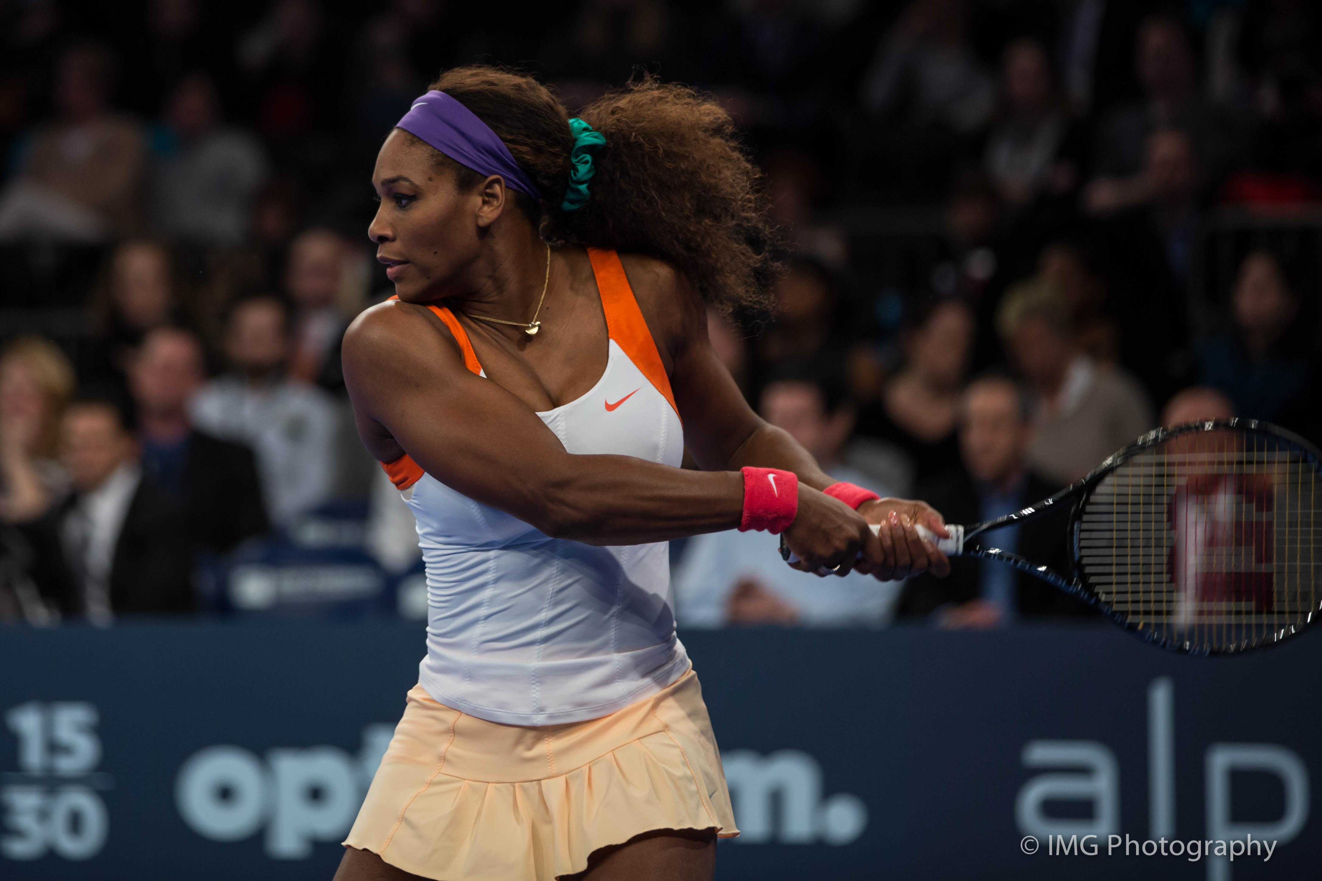 Serena Williams at the Exhibition event at BNP Paribas Showdown